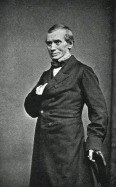 Picture of Thomas Graham (* 21. Dezember 1805 in Glasgow; † 11. September 1869 in London)